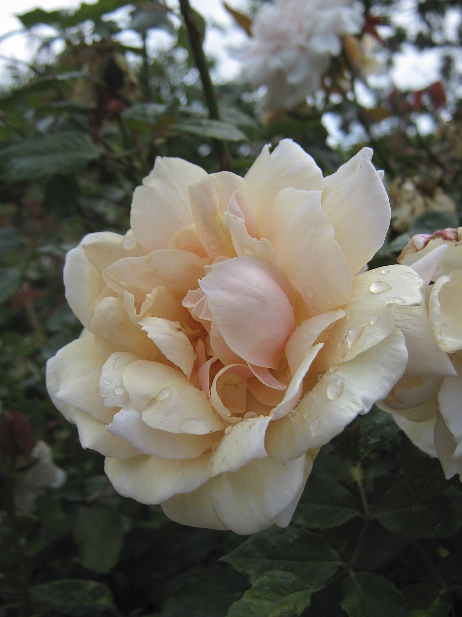 Rose 'Mrs Hugh Dettman', Hybrid gigantea by Alister Clark 1930; Photographed in the Alister Clark Memorial Rose Garden, Bulla, VIctoria